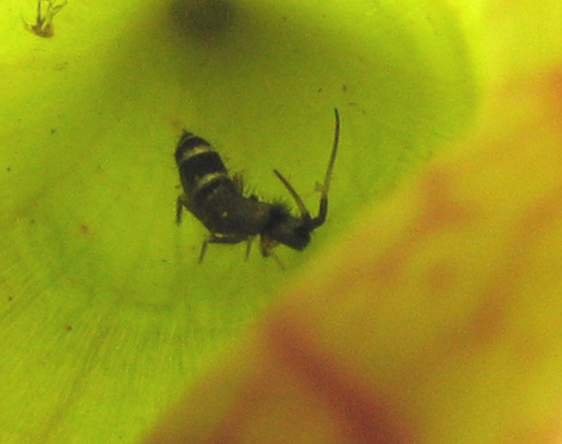 Springtail, Tomoceridae family, trapped by pitcher plant, Sarracenia purpurea. Pennypack Restoration Trust, Montgomery County, Pennsylvania, USA.